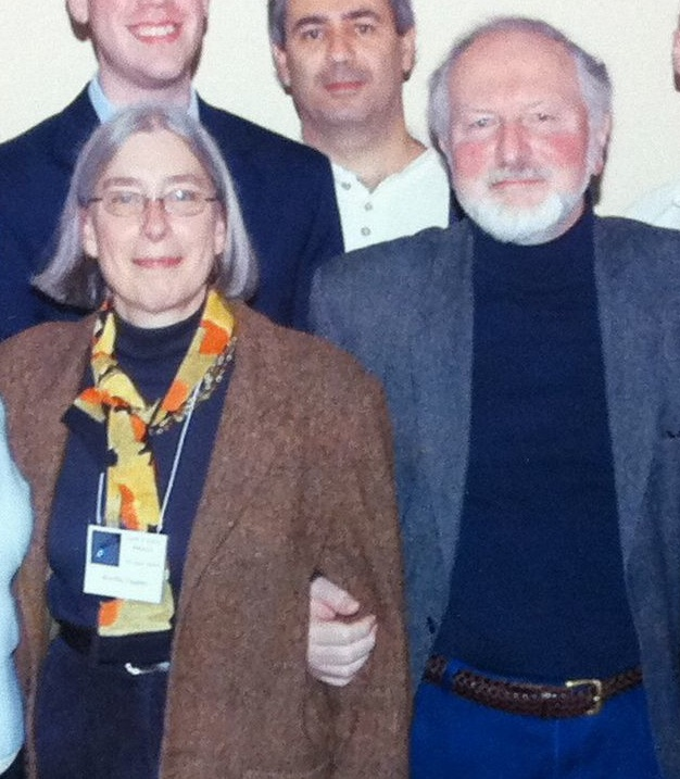 Image of Martha Haynes and Riccardo Giovanelli